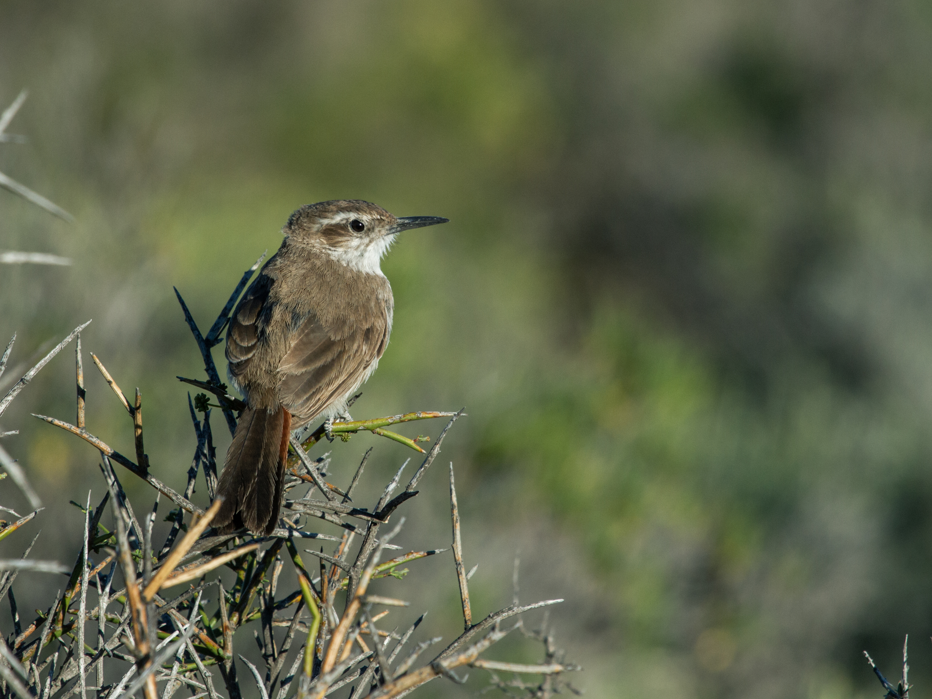 Band-tailed Earthcreeper from Chubut, Argentina.